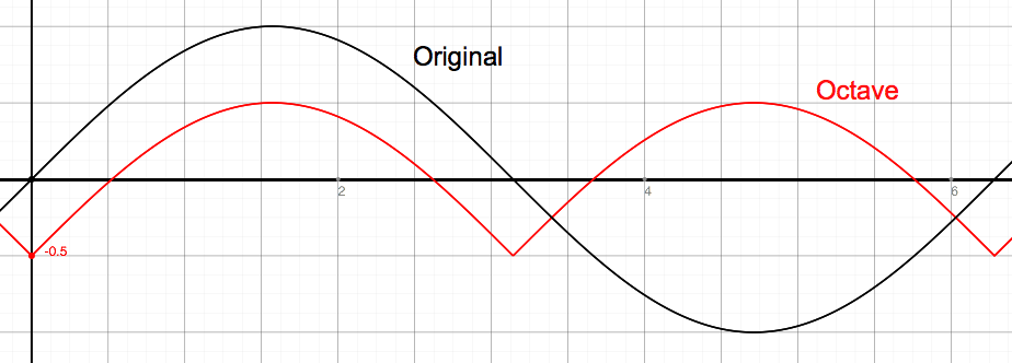 Graph of an Octaver effect (frequency doubling by rectification and DC offset)